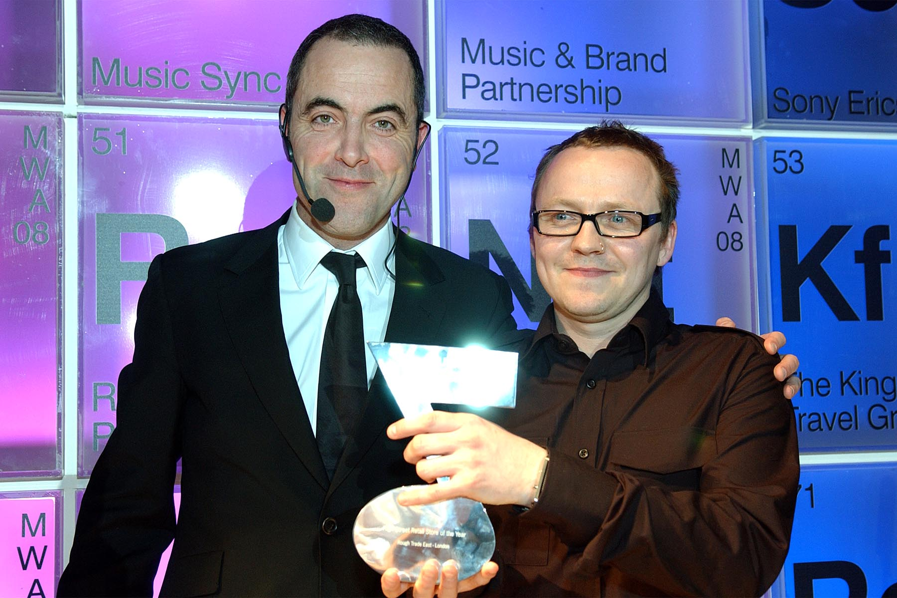 James Nesbitt presenting an award for retailer of the year at the Grosvenor Hotel , Park Lane, London.